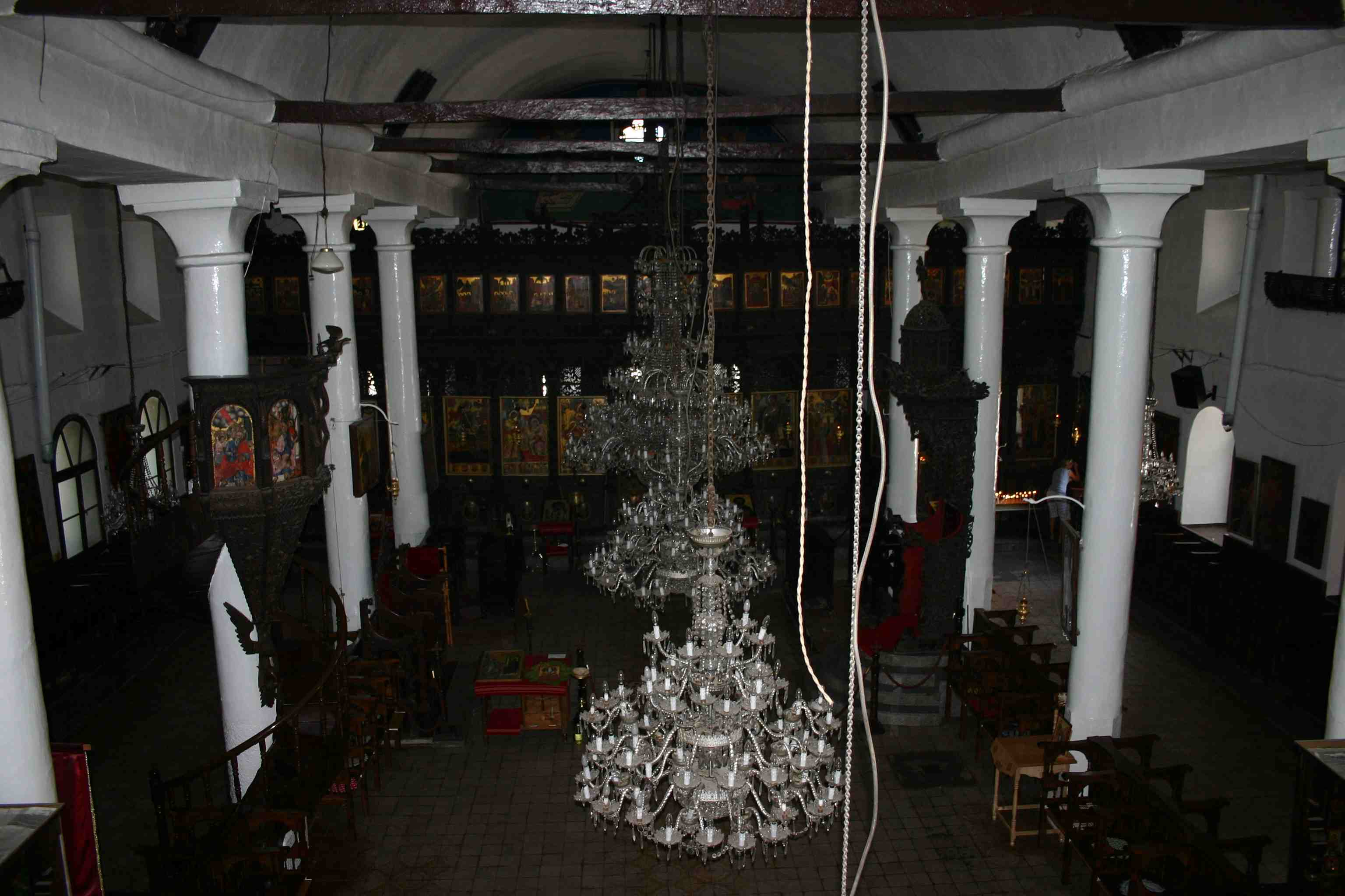 church "St.the ANNUNCIATION ", Prilep, Republic of Macedonia